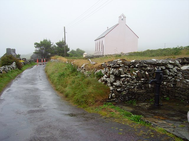 Cléire, The church